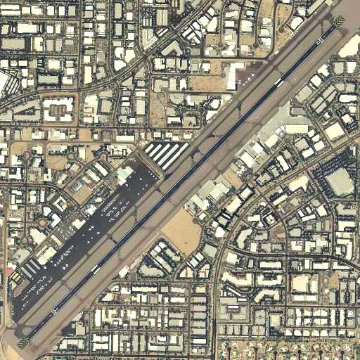 USGS digital orthophoto of Scottsdale Airport in Arizona